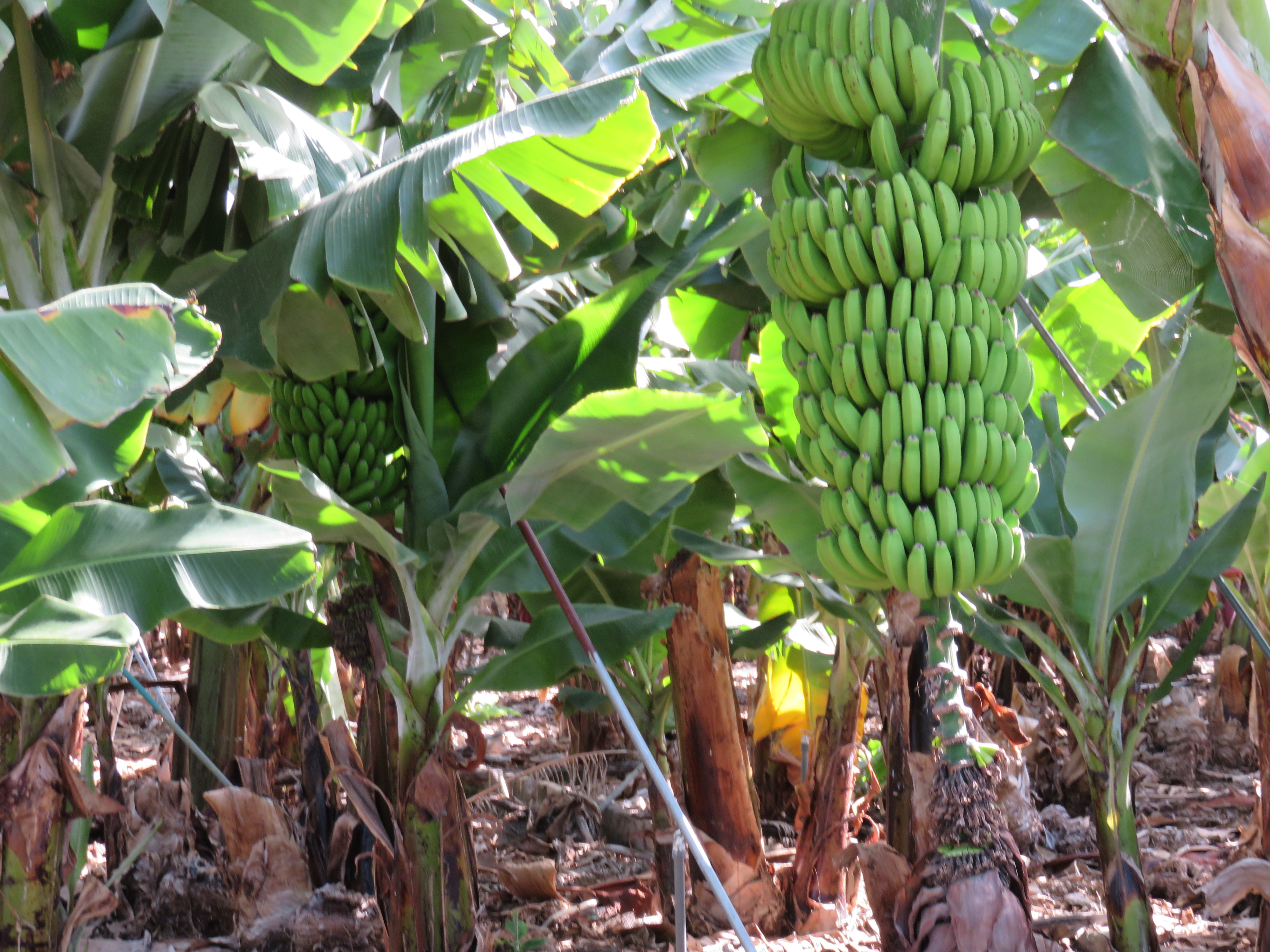 Banana plantation in Tazacorte